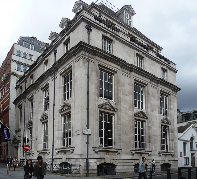 Library, Orange Street